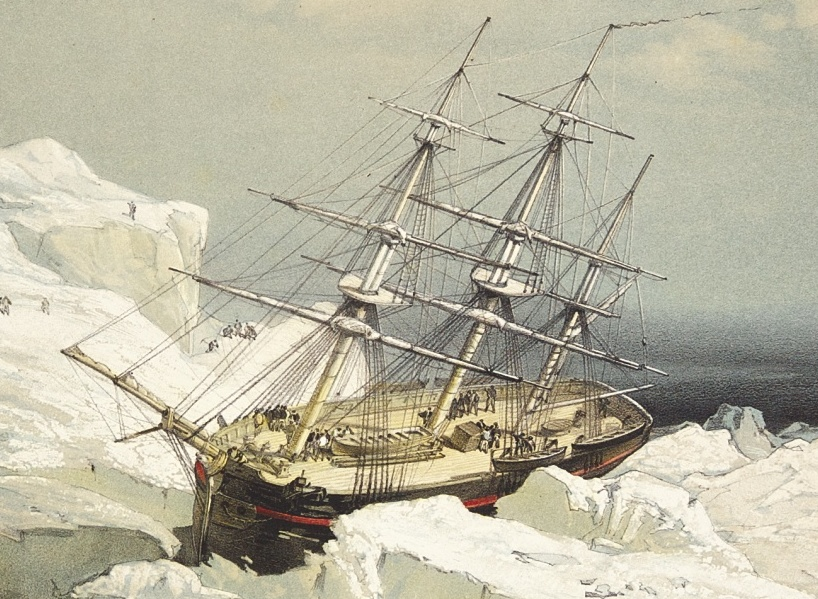 Critical position of HMS Investigator on the north-coast of Baring Island. August 20th. 1851.